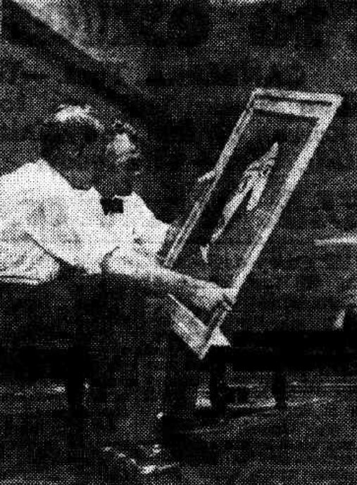 Tony Tuckson and the NSW Art Gallery director Hal Missingham look at Pablo Picasso's "Le Corsage Orange".